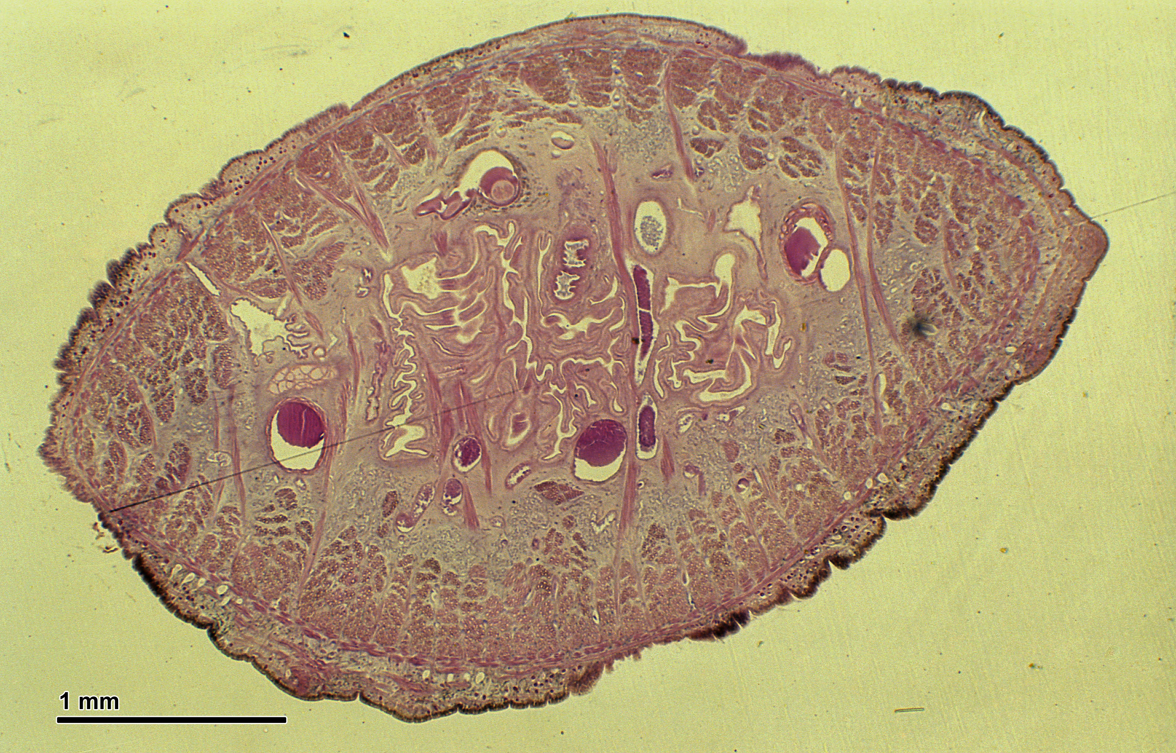 Leech: Cross-section of leech (Hirudinea). Optical microscopy technique: Polarized light. Magnification: 50x (for picture width 26 cm ~ A4 format).